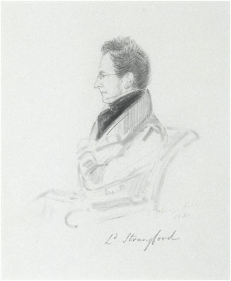 Depicted person: Percy Smythe, 6th Viscount Strangford